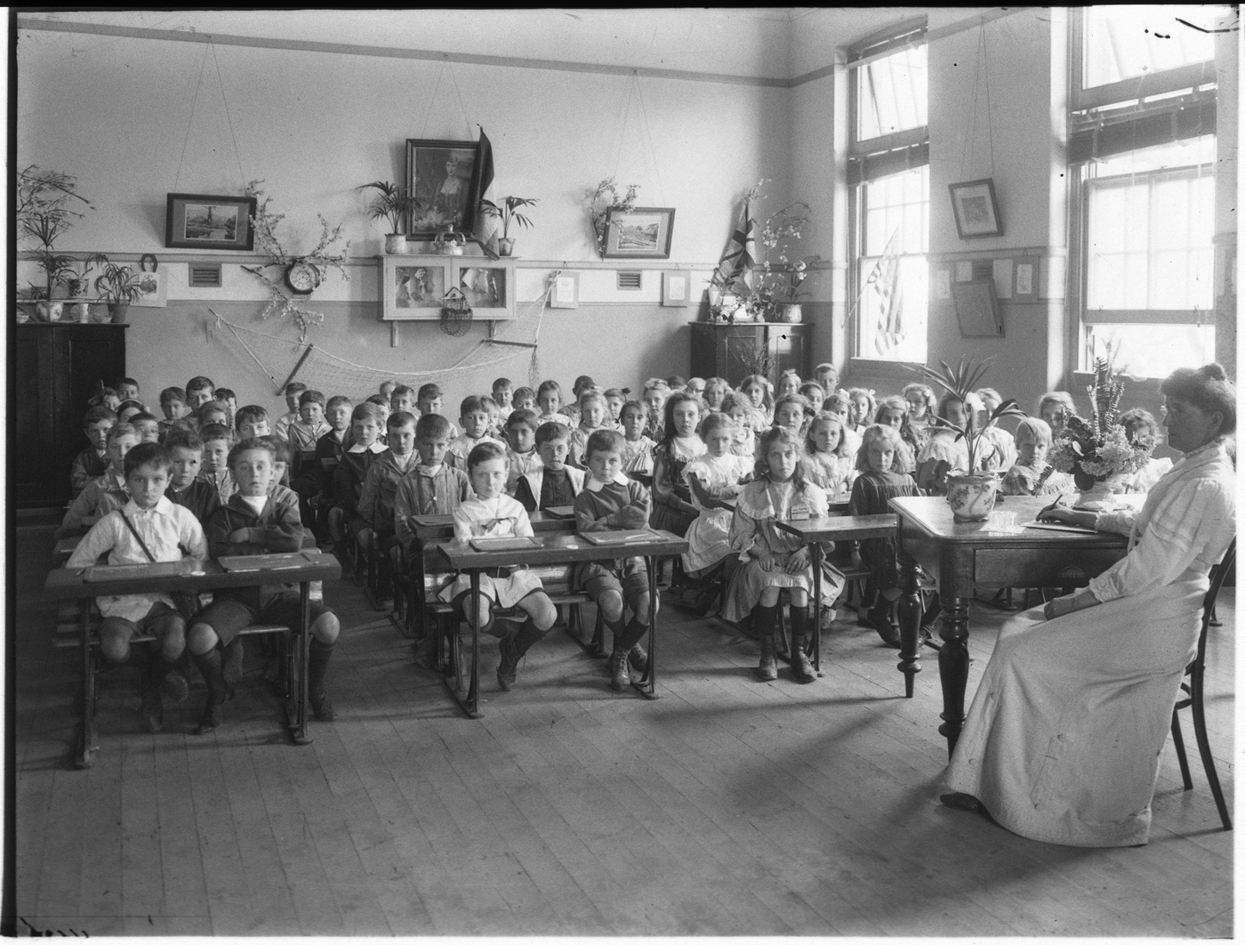 Internal picture of the Infants class at Cleveland Street Public School, ca. 1909.